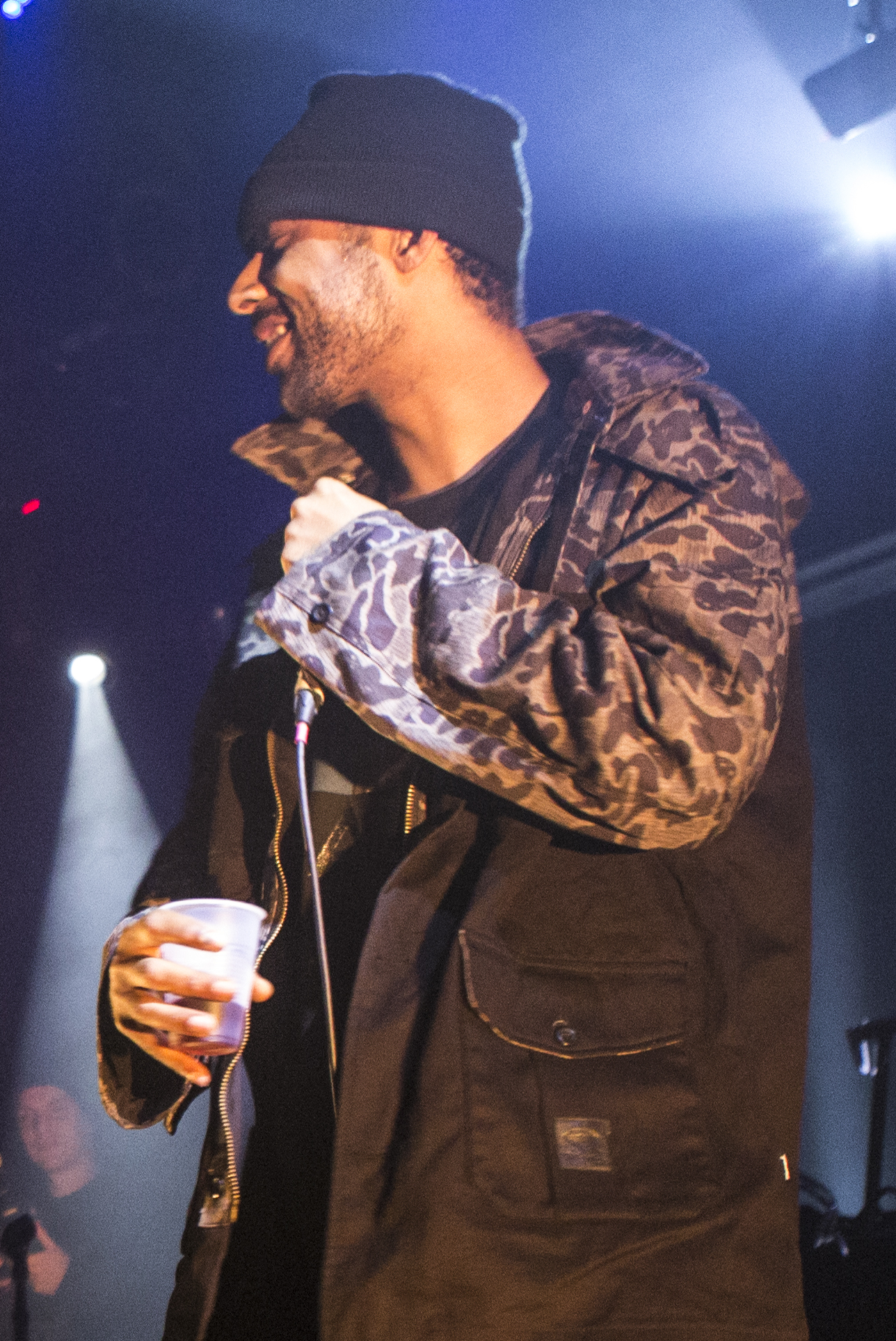 Image of American hip hop group Gangrene.